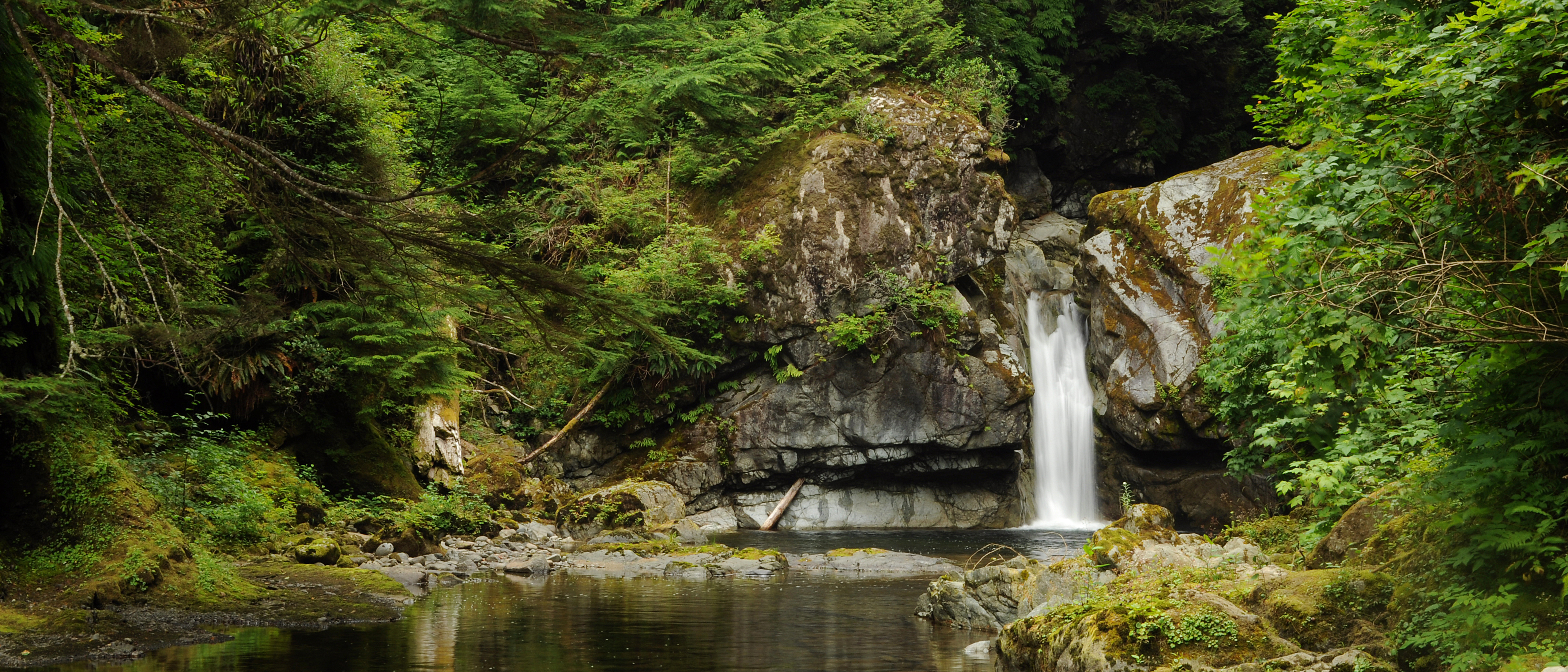 A small waterfall on the Darling River, near the coast. Just off of the West Coast Trail, British Columbia, Canada.